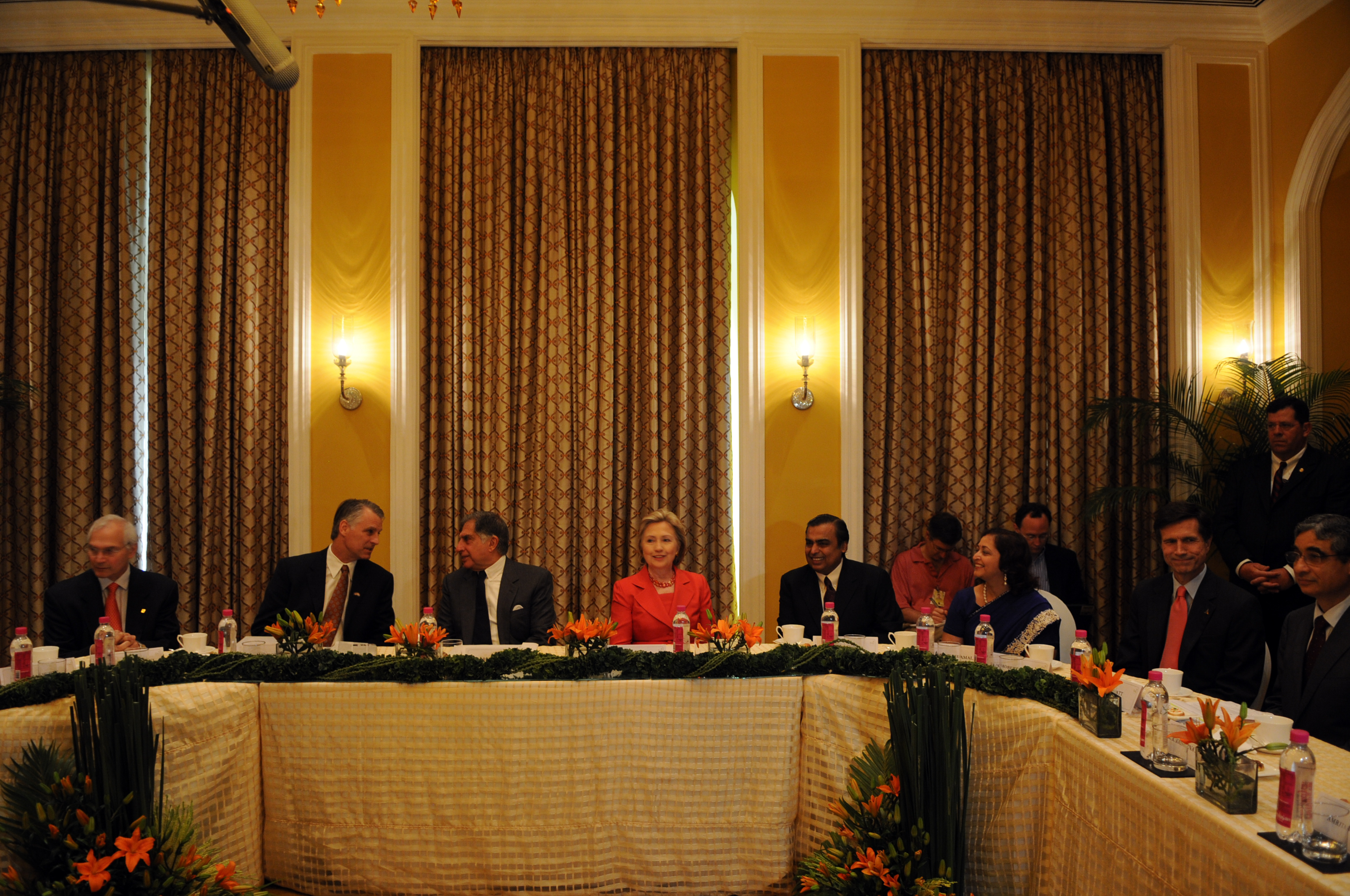 U.S. Secretary of State Hillary Rodham Clinton meets with India's business leaders in Mumbai, India July 18, 2009. From left to right: Jamshyd N. Godrej, Chairman of the Board of Godrej and Boyce Manufacturing Company Limited; Timothy J. Roemer, U.S. Ambassador-Designate to India; Ratan Tata, Chairman of the Tata Group; Secretary Clinton; Mukesh Ambani, chairman and managing director of Reliance Industries; Swati Piramal, Director of Strategic Alliance and Communication at Piramal Healthcare Ltd.; Robert O. Blake, Assistant Secretary of State for South and Central Asia; O.P. Bhatt, Chairman of the State Bank of India. [State Department photo]